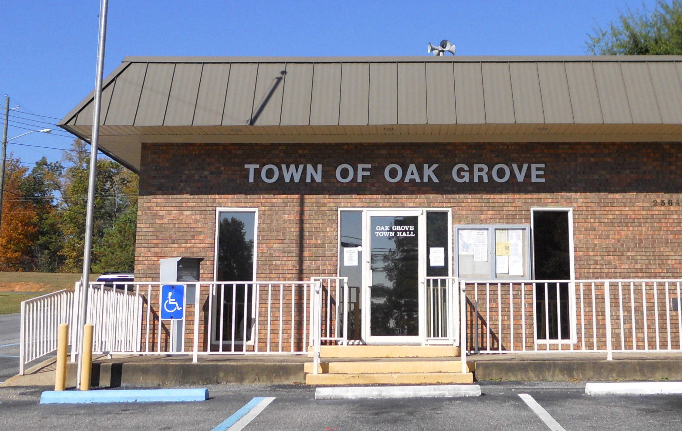 This is a photograph of the town hall in Oak Grove, Alabama.